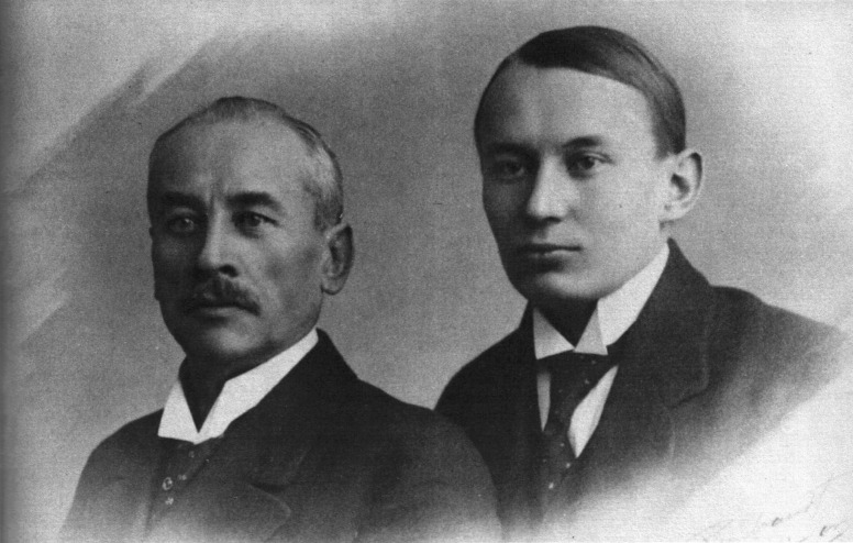 Finnish composers, father and son: Oskar Merikanto (1868–1924) and Aarre Merikanto (1893–1958).